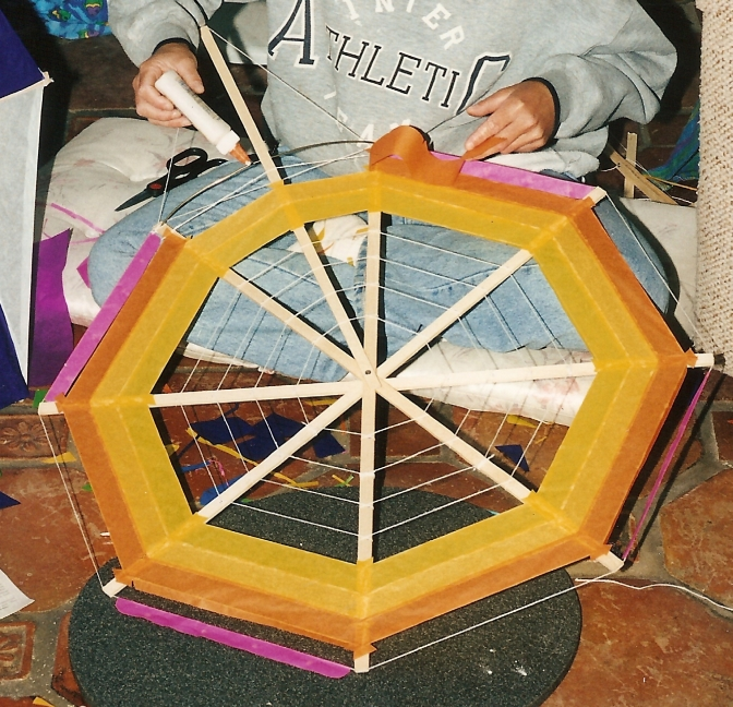 A Bermuda kite under construction. Place: City of Hamilton, Pembroke, Bermuda.